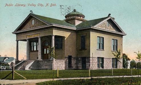 Postcard of Valley City Carnegie Library, Valley City, North Dakota. Image is public domain as published before 1923. Source info from NDSU web site shows postmark date of September 3, 1909.